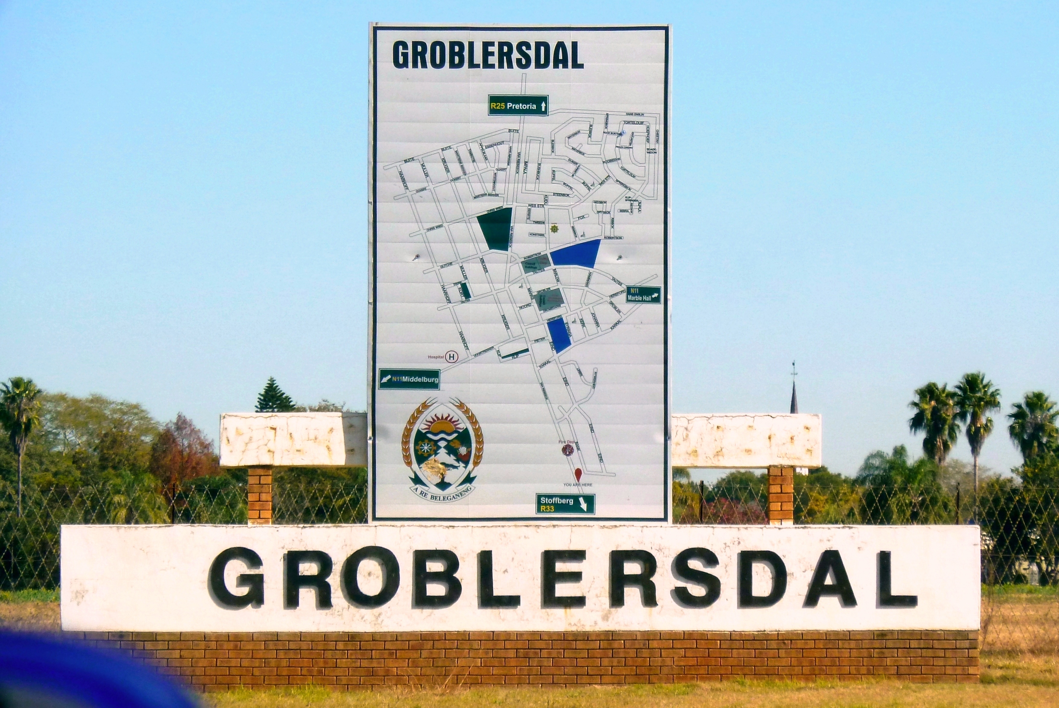 City limit sign of Groblersdal, Limpopo, South Africa